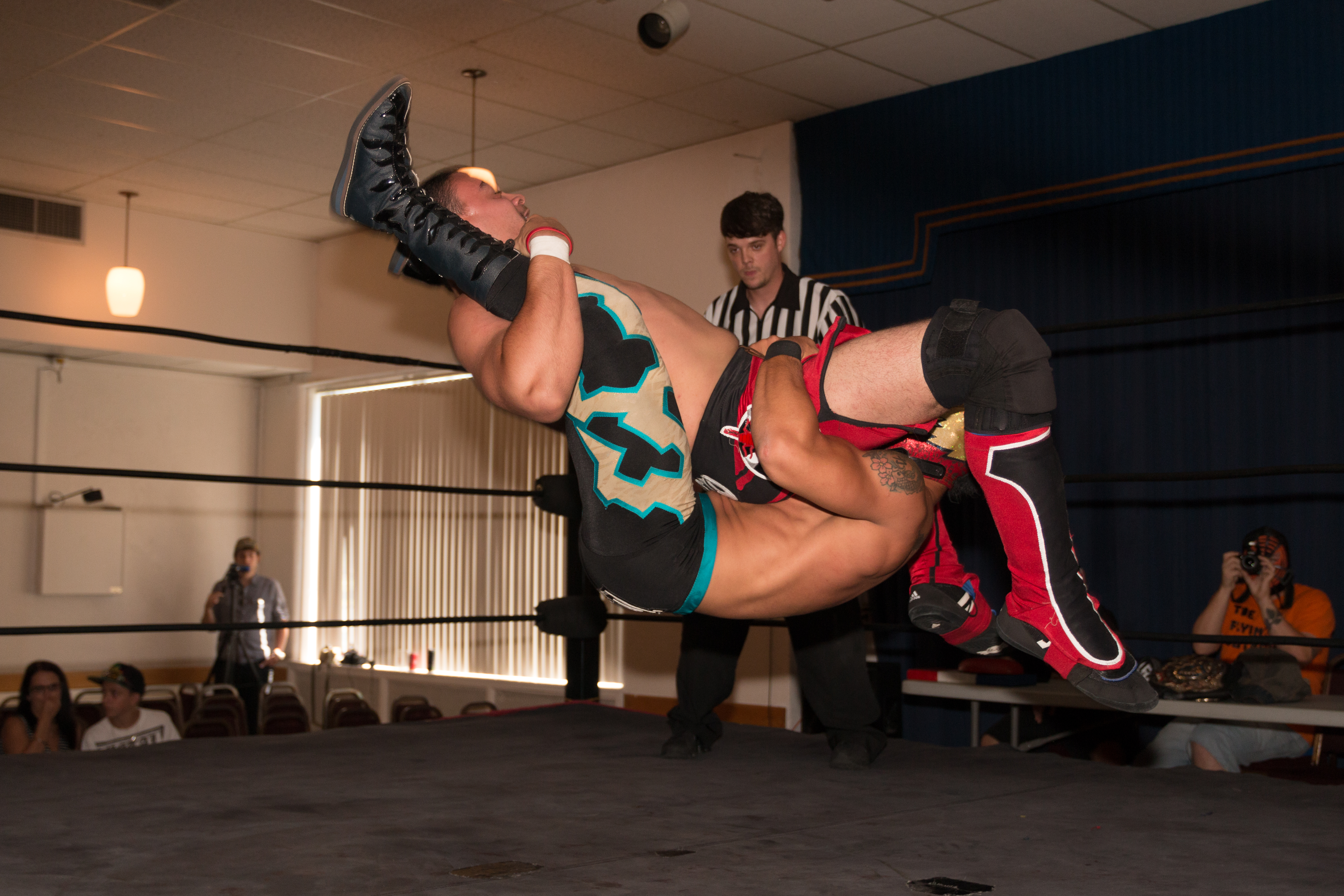 Lince Dorado (on the bottom, in the black and blue trunks), photographed in mid-rotation while executing a flip powerslam on one of the members of the tag team Amasis. Photo was taken at LuchaTO Chapter 2 in Toronto, ON